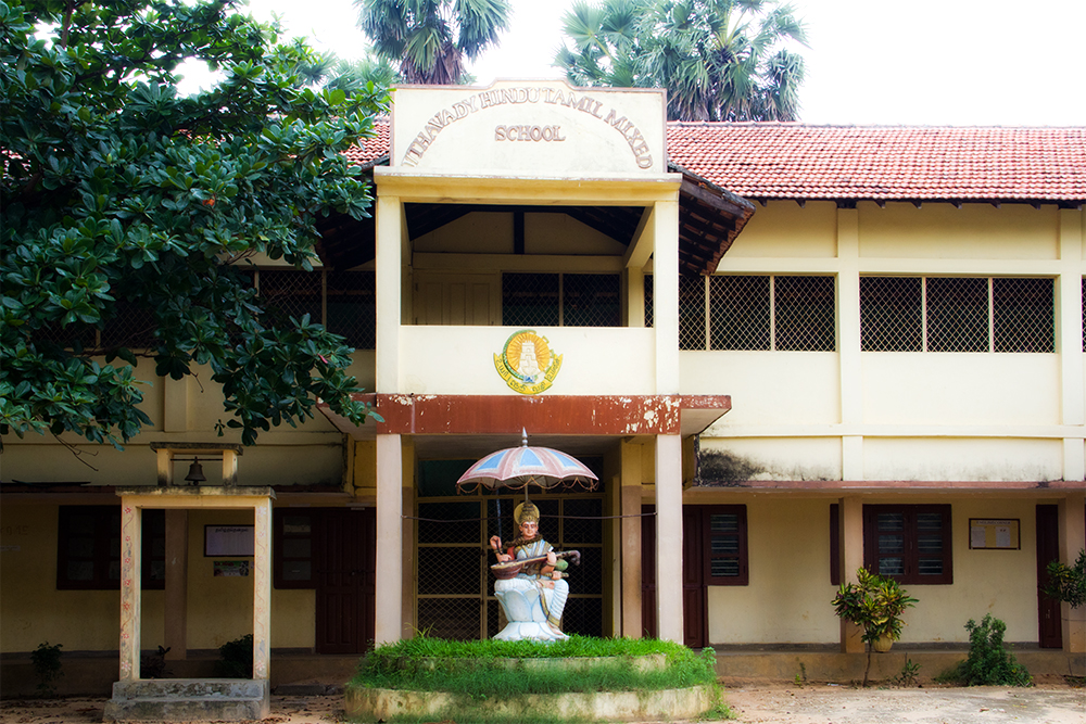 A School in Jaffna